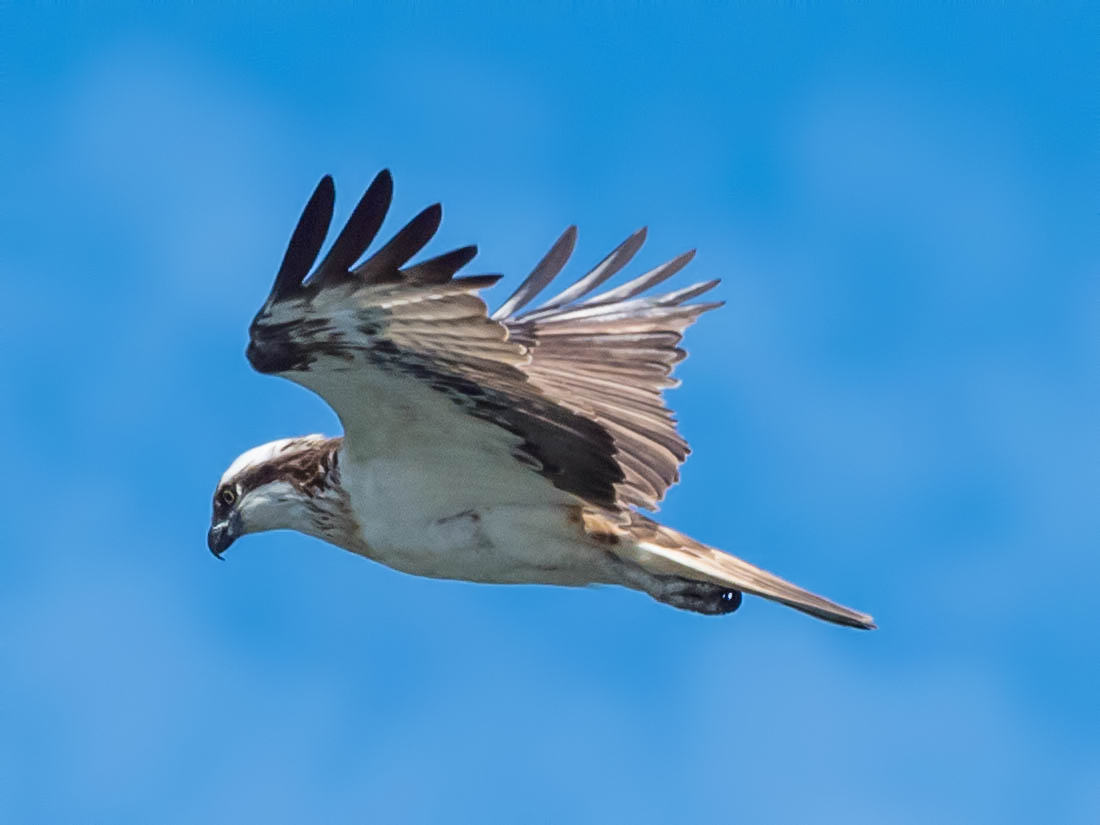 Birds Vaxholm May 2017 Pandion haliaetus